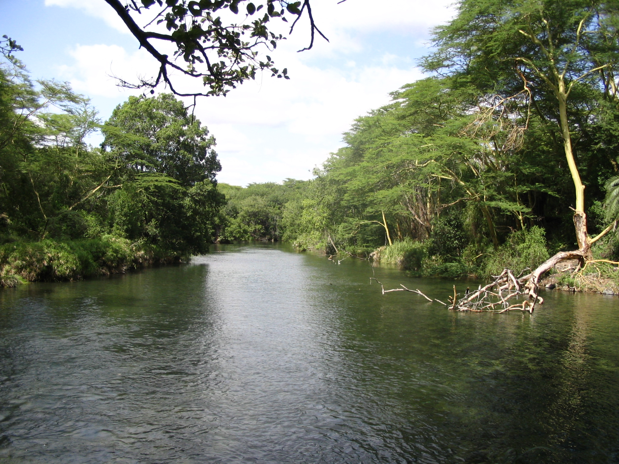 The Tsavo River running through the Tsavo West National Park, Kenya. Large trees are present on both banks of the river.